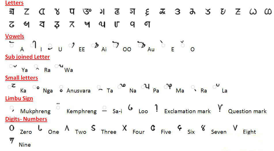 Limbu Letters